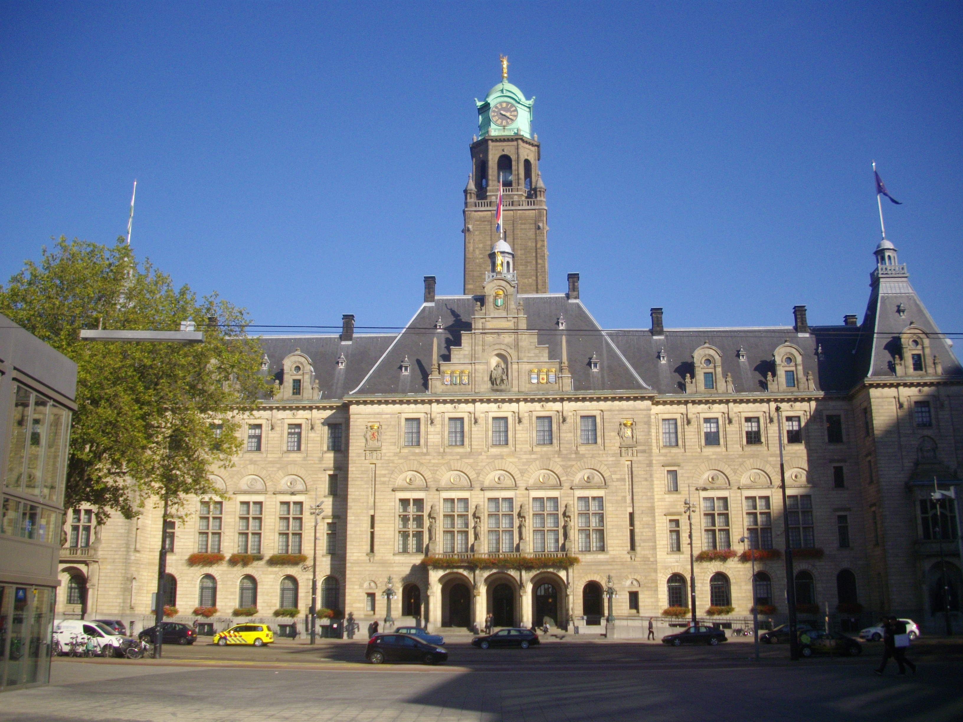 Rotterdam stadhuis (Rotterdam Town Hall), October 2015